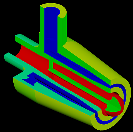 Pintle Injector 3d CAD render - Fuel in red, oxidizer in blue.